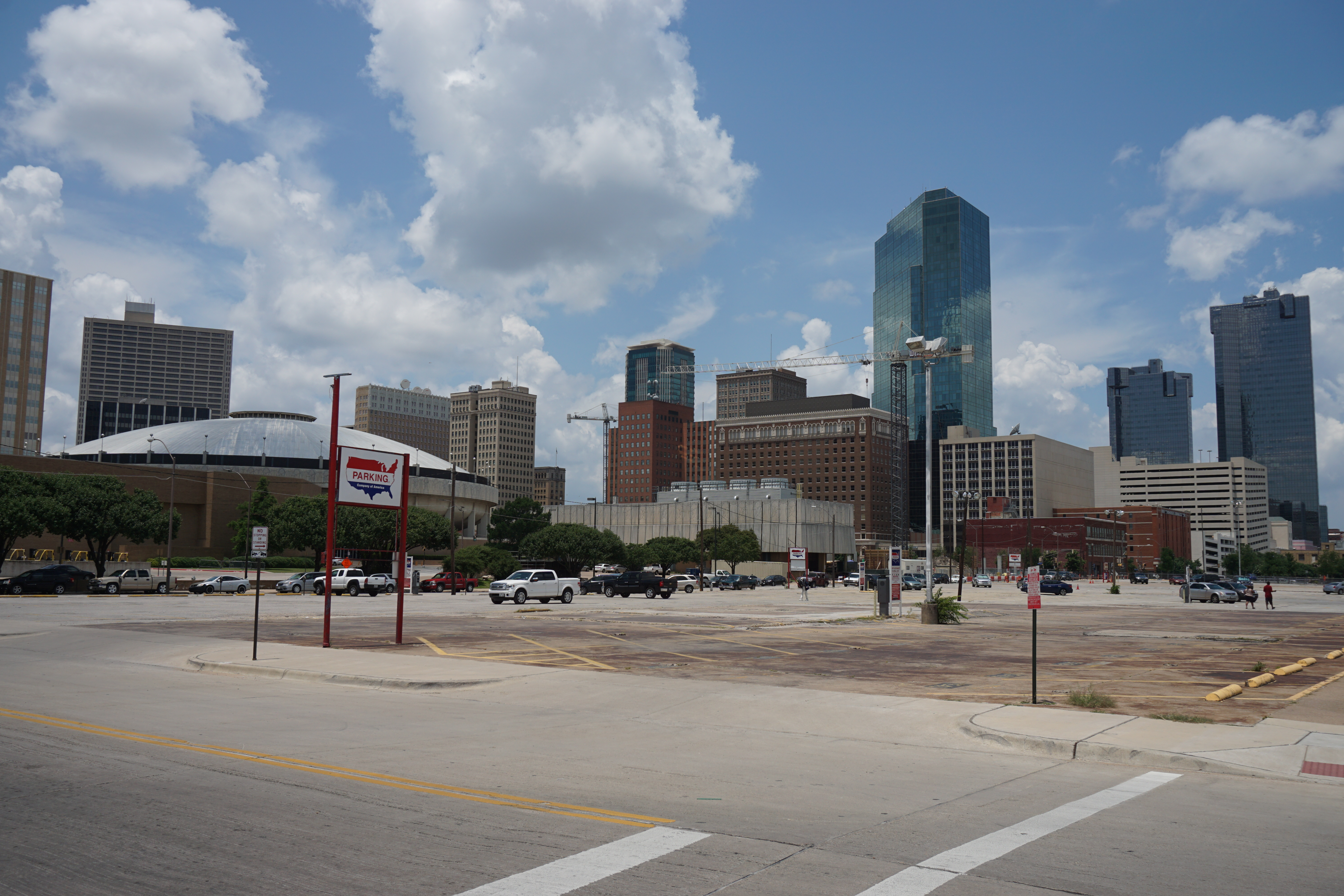 The city skyline of Fort Worth, Texas (United States).